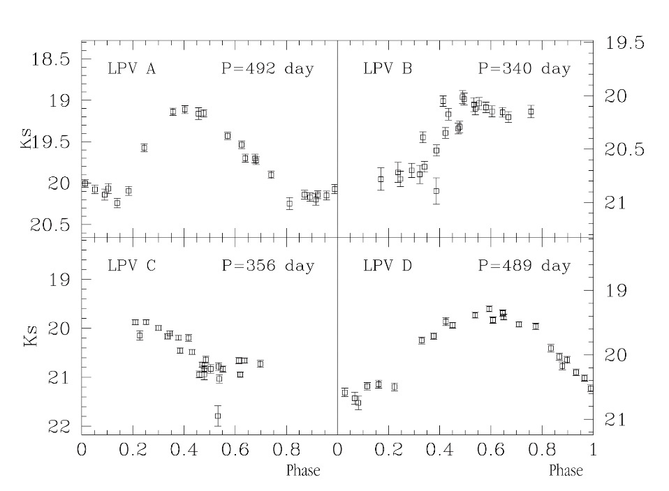 Light curves of four Mira stars in Centaurus A. Here the abscissa indicates the pulsation phase (one full period corresponds to the interval from 0 to 1) and the ordinate unit is near-infrared K s -magnitude. One magnitude corresponds to a difference in brightness of a factor 2.5.